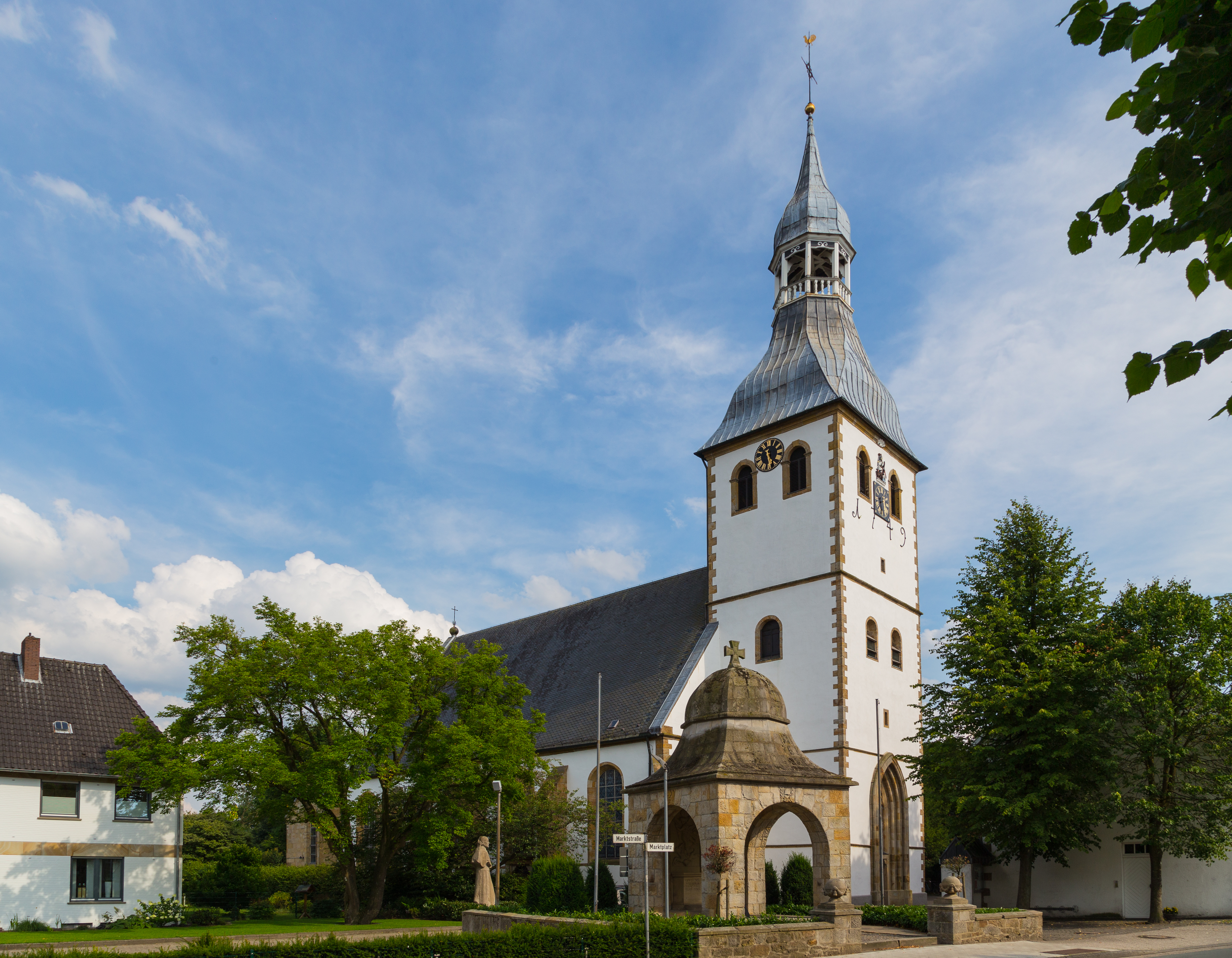 Roman Catholic St George Parish Church in Hopsten, Kreis Steinfurt, North Rhine-Westphalia, Germany. photograph shows also the war memorial and the Ketteler Memorial.